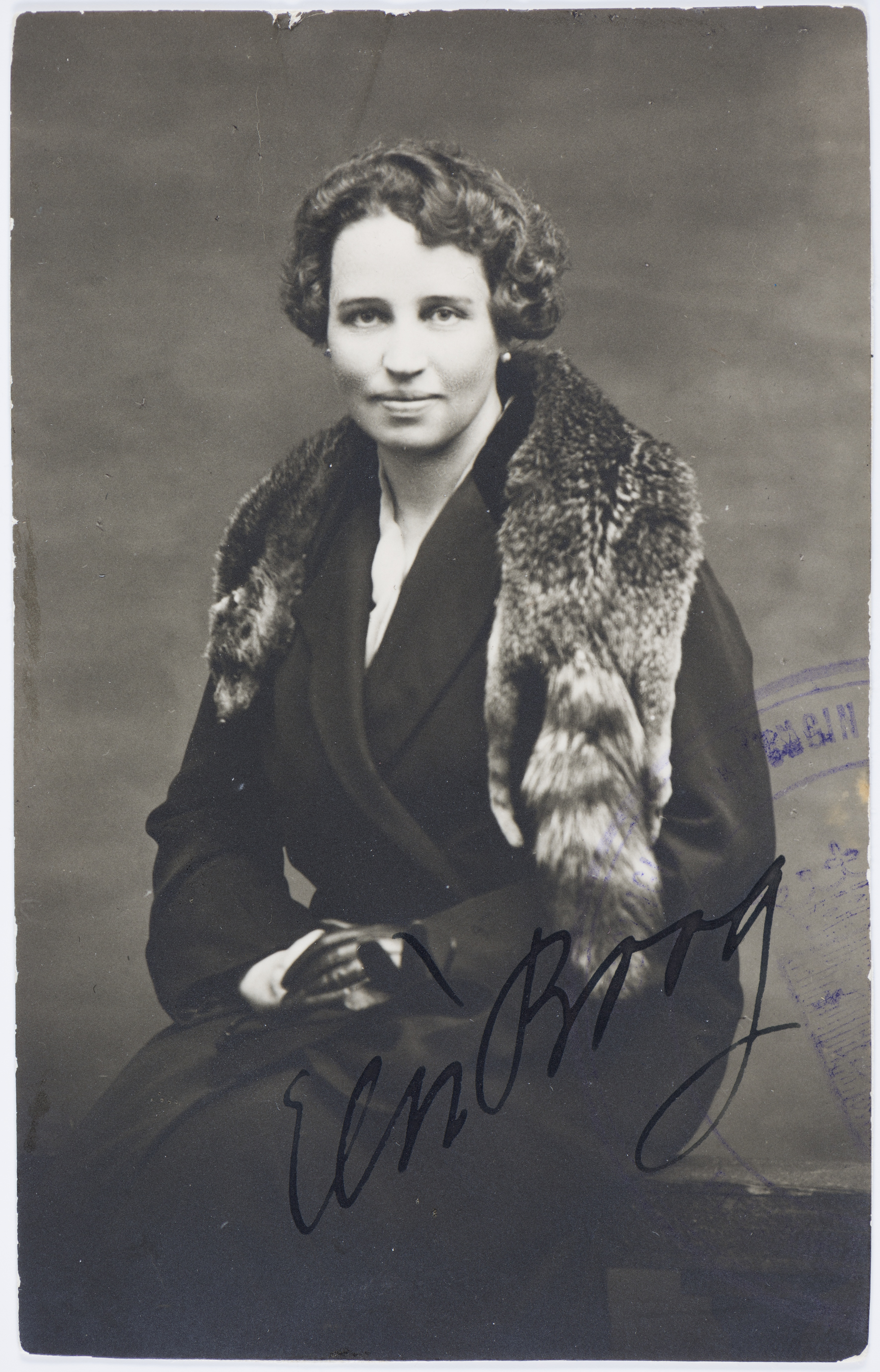 Photograph of the Finnish architect Elsi Borg (1893–1958).